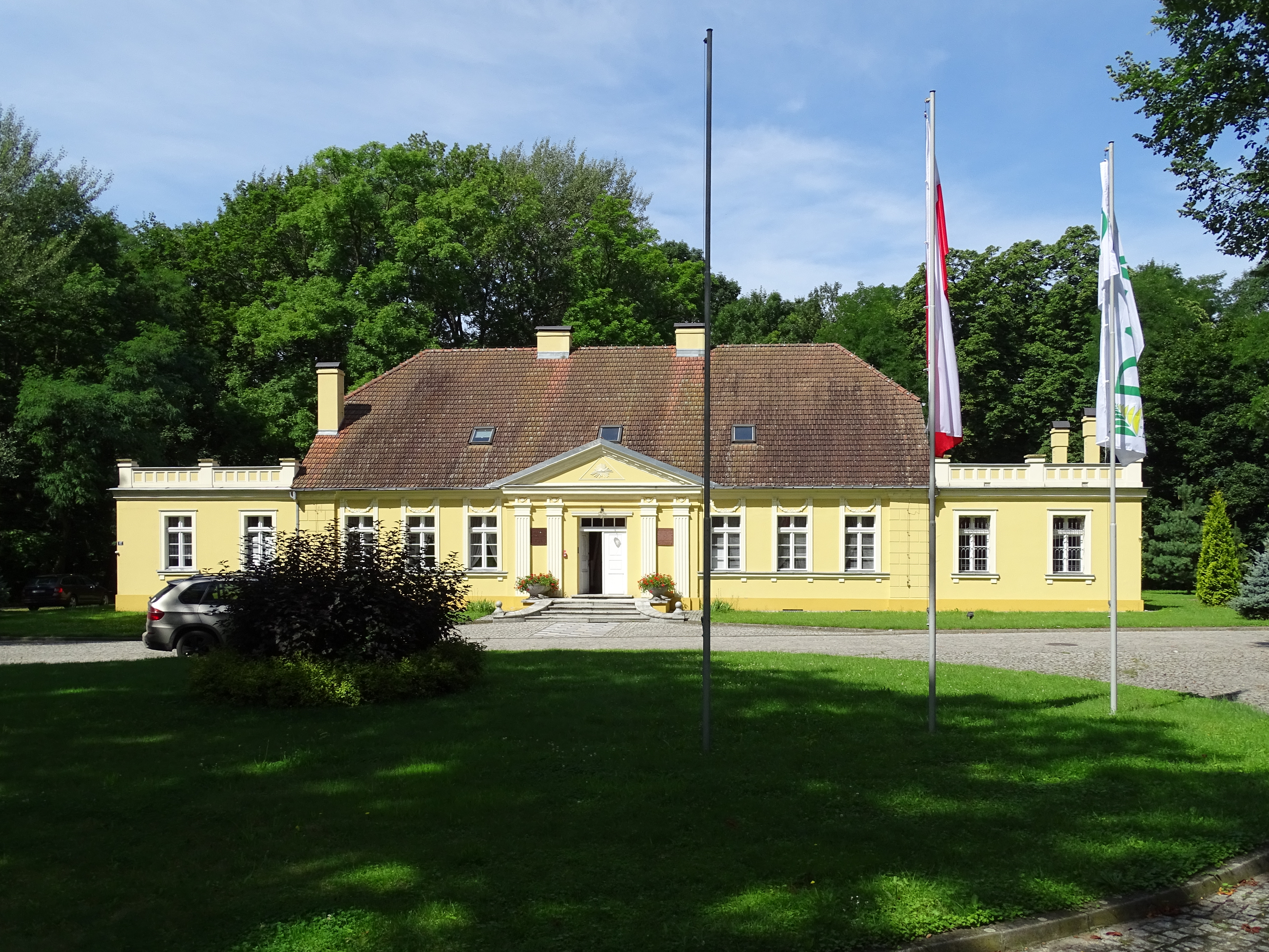 Choryń, Gmina Kościan, Poland. The manor house. Built in the late 18th century.